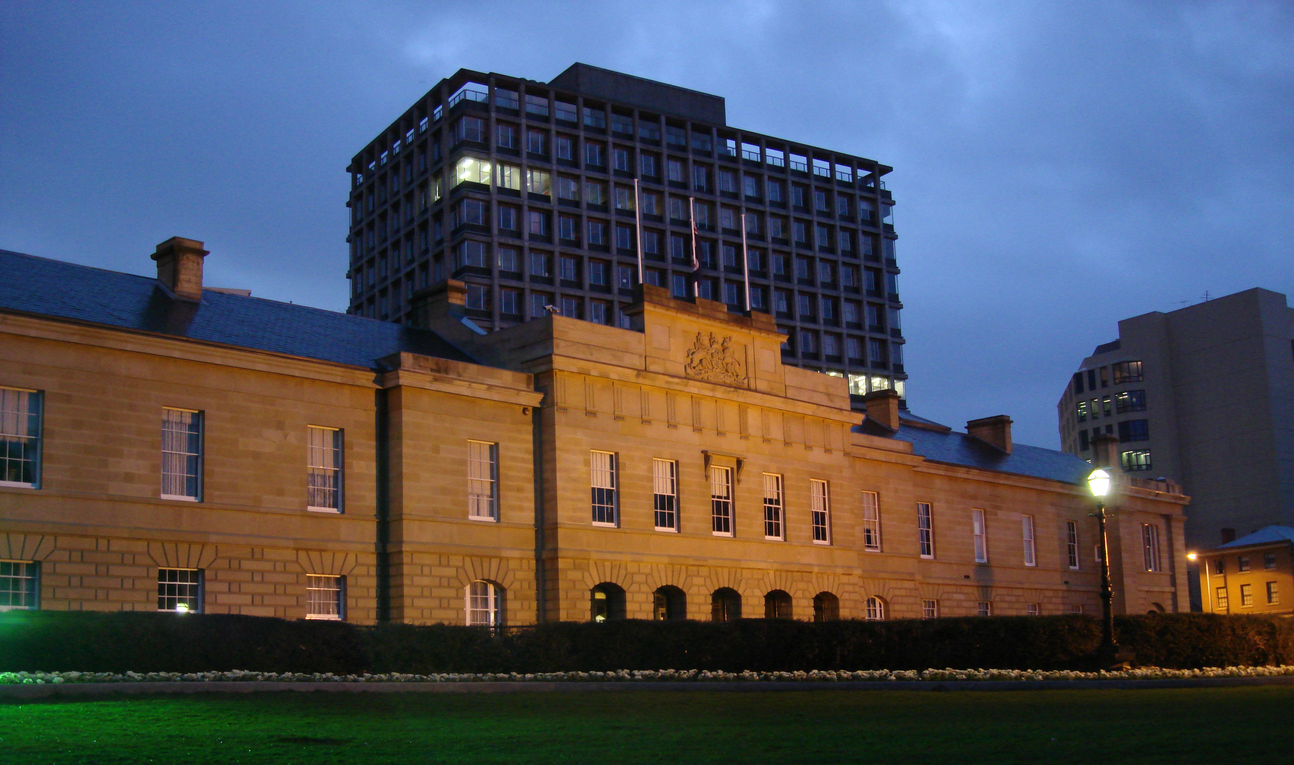 Parliament House, Hobart has been the meeting place of the Government of Tasmania since 1841. The building was originally designed as a customs house, and from 1841 until 1904 when the customs offices were relocated, the building served both purposes. It is located on Salamanca Place in Hobart, Tasmania, Australia. It is the home of the Parliament of Tasmania, which is a bicameral parliament consisting of the Tasmanian Legislative Council (Upper House) and the Tasmanian House of Assembly (Lower House)